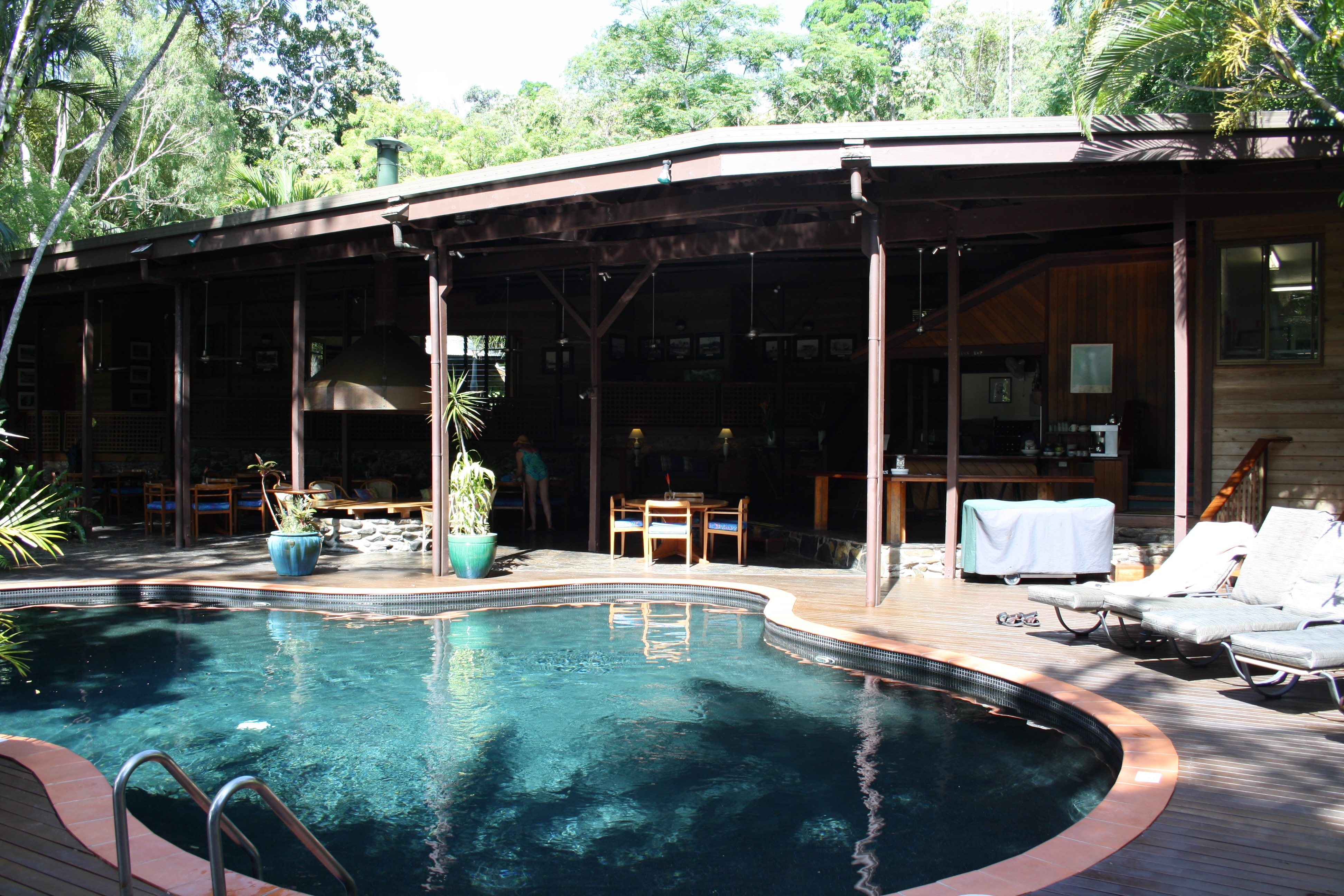 Restaurant and pool area, Bloomfield Lodge, Nov 2011